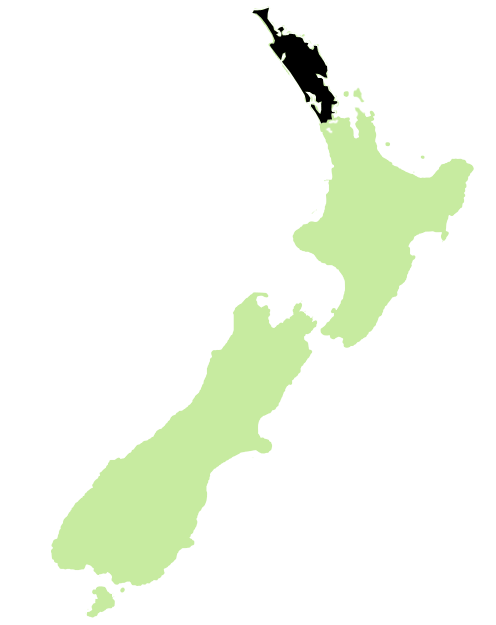 Map showing the Te Tai Tokerau electorate based on boundaries used for the 2008 and 2011 general elections